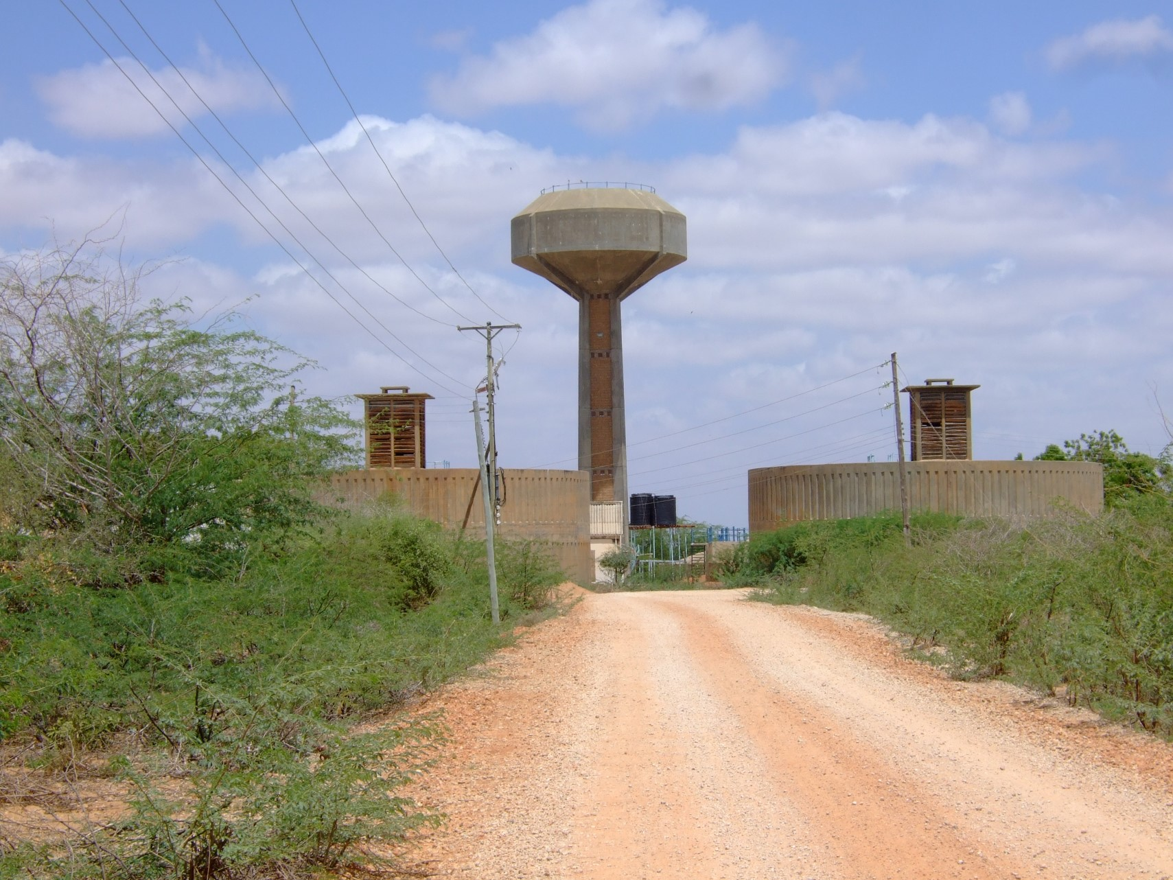 Water treatment works at Bura-Tana (also known as Bura West), Kenya. The construction was carried out by HVA (Kenya) 1981-1983. These works can deliver purified drinking water to a population of at least 65,000 people. The quality of the construction work was outstanding. Unfortunately, it was never used to its full capacity due to lack of funds for running the works. This picture was taken in 2014.